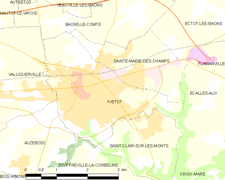 Map of French municipality Yvetot